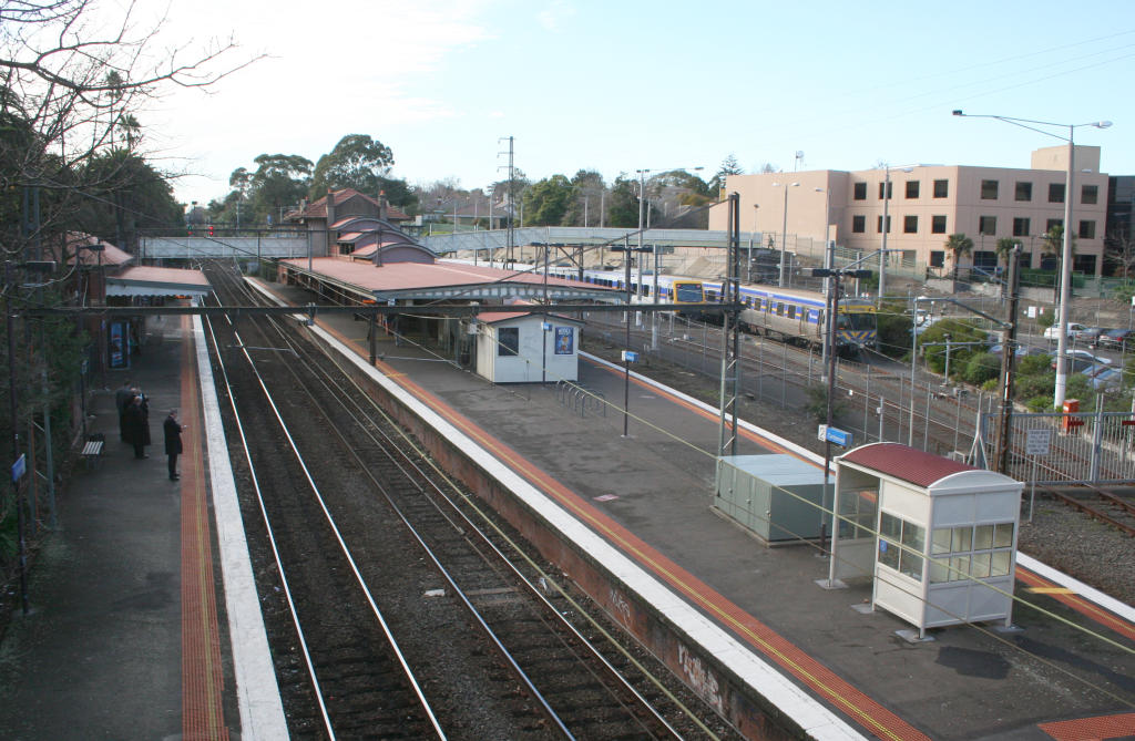 Burke Road end of Camberwell railway station, Melbourne, looking east